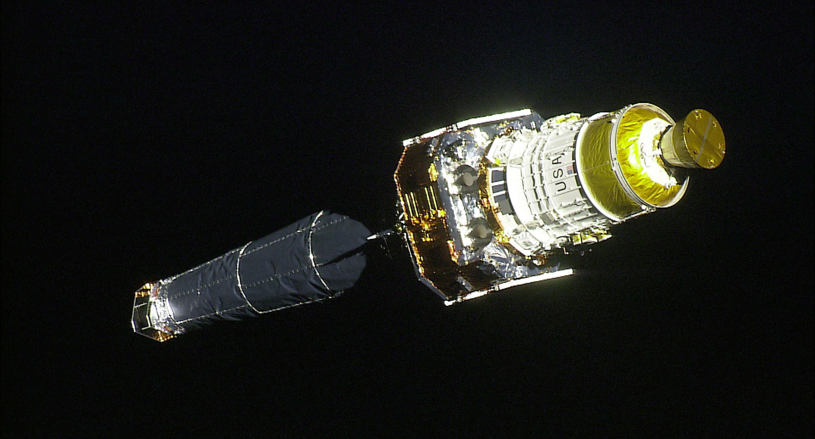 This image of NASA's Chandra X-ray Observatory following deployment from the Space Shuttle Columbia was taken from High Definition Television (HDTV) shot by Columbia Astronaut Mission Specialist Cady Coleman, during the STS-93 mission. Chandra, the world's most powerful x-ray telescope, was developed by NASA's Marshall Space Flight Center in Huntsville, Ala.